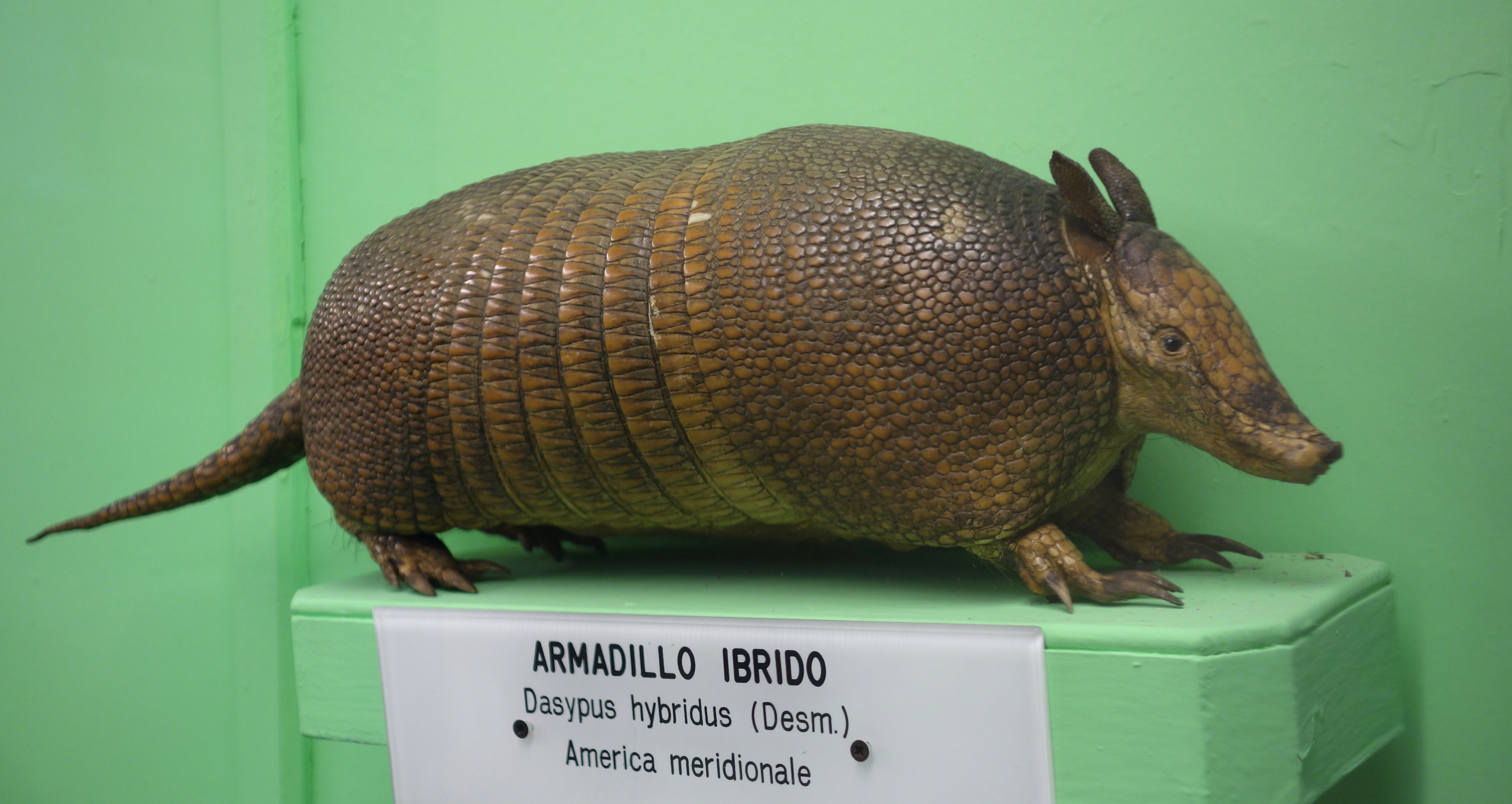 Exhibit in the Museo Civico di Storia Naturale di Genova, Via Brigata Liguria, 9, 16121, Genoa, Italy.